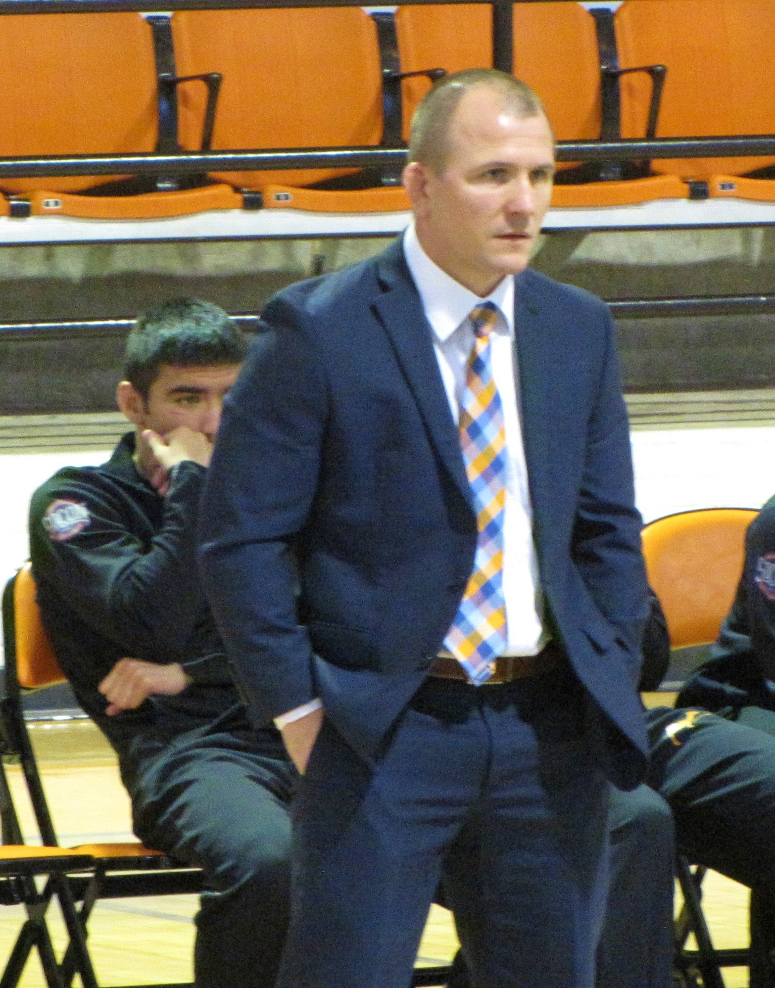 Cary Kolat coaching from the edge of the mat during a dual meet between the Campbell Camels and American Eagles in Carter Gym on the Campus of Campbell University in Buies Creek, North Carolina